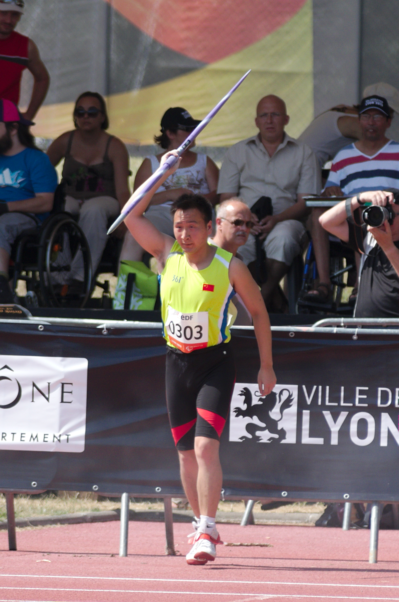 Pengkai Zhu of China during the Men's Javelin throw - F12-13